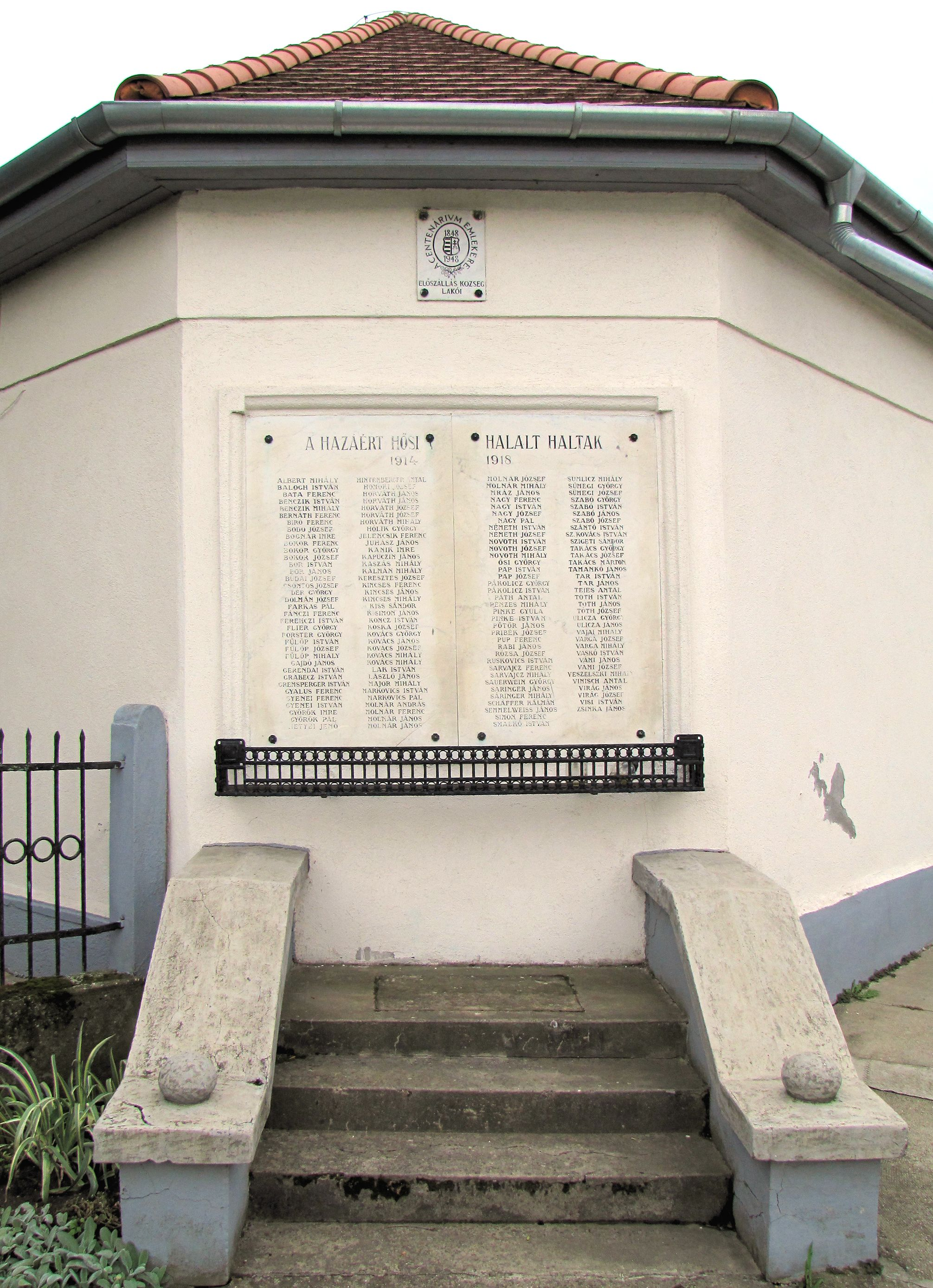 Memorial of World War I, Előszállás.